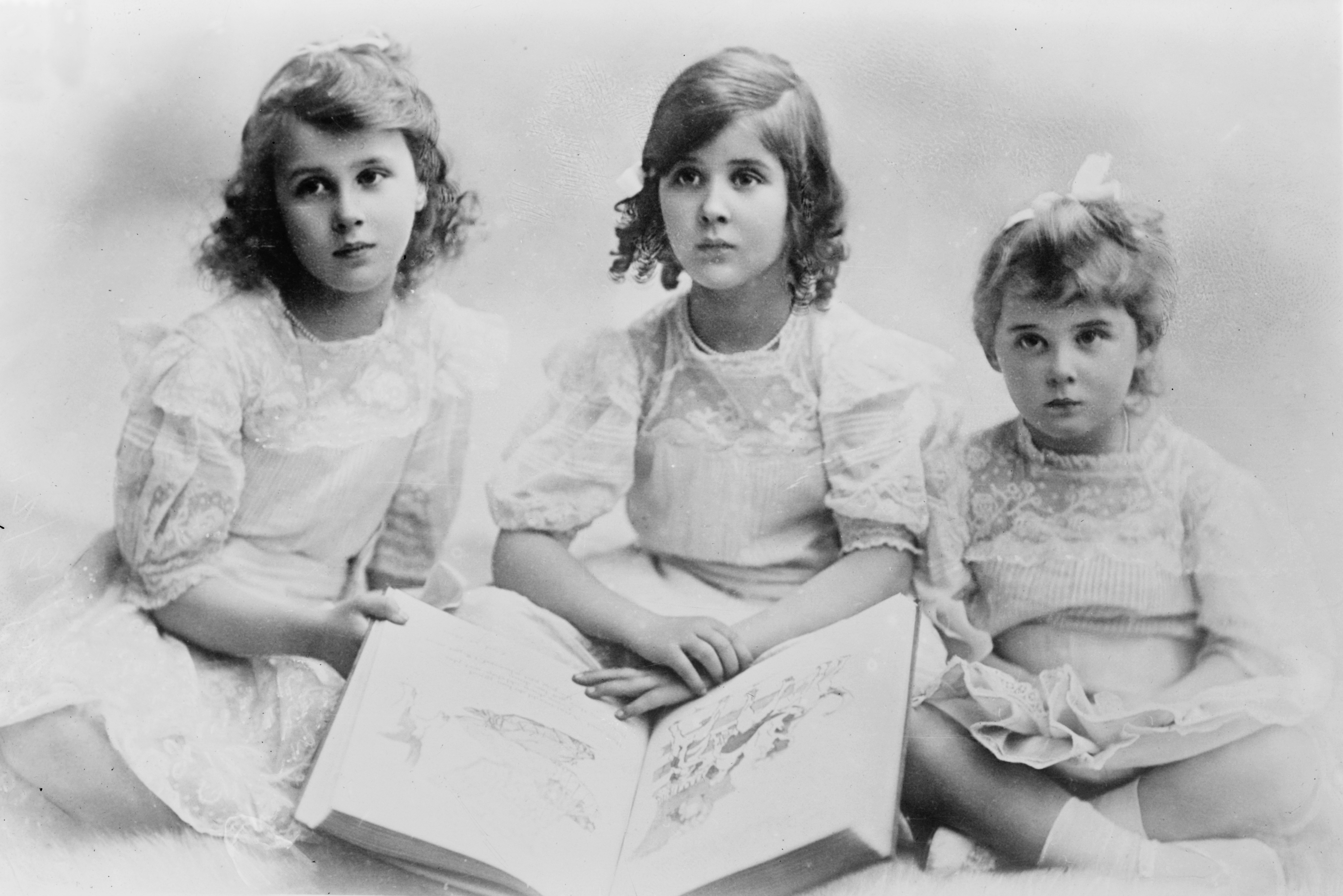 Daughters of Prince and Princess of Greece: Olga, Eliy, & Marina